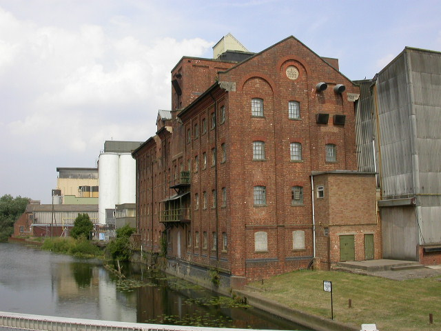 Victoria Flour Mills on the River Nene at Wellingborough, Northamptonshire, England